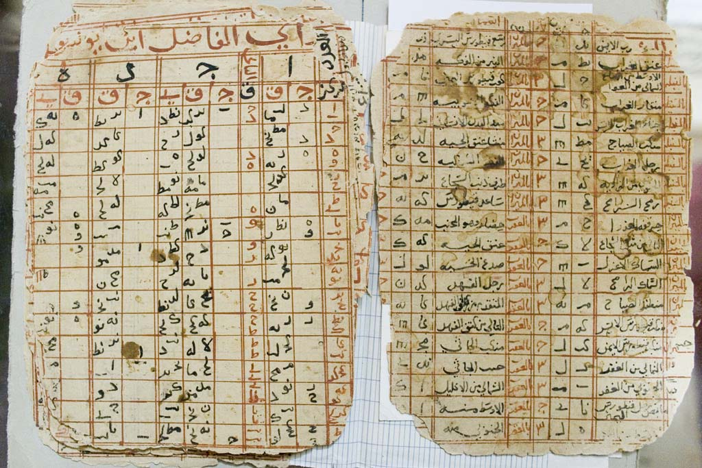 Image of Timbuktu manuscripts.